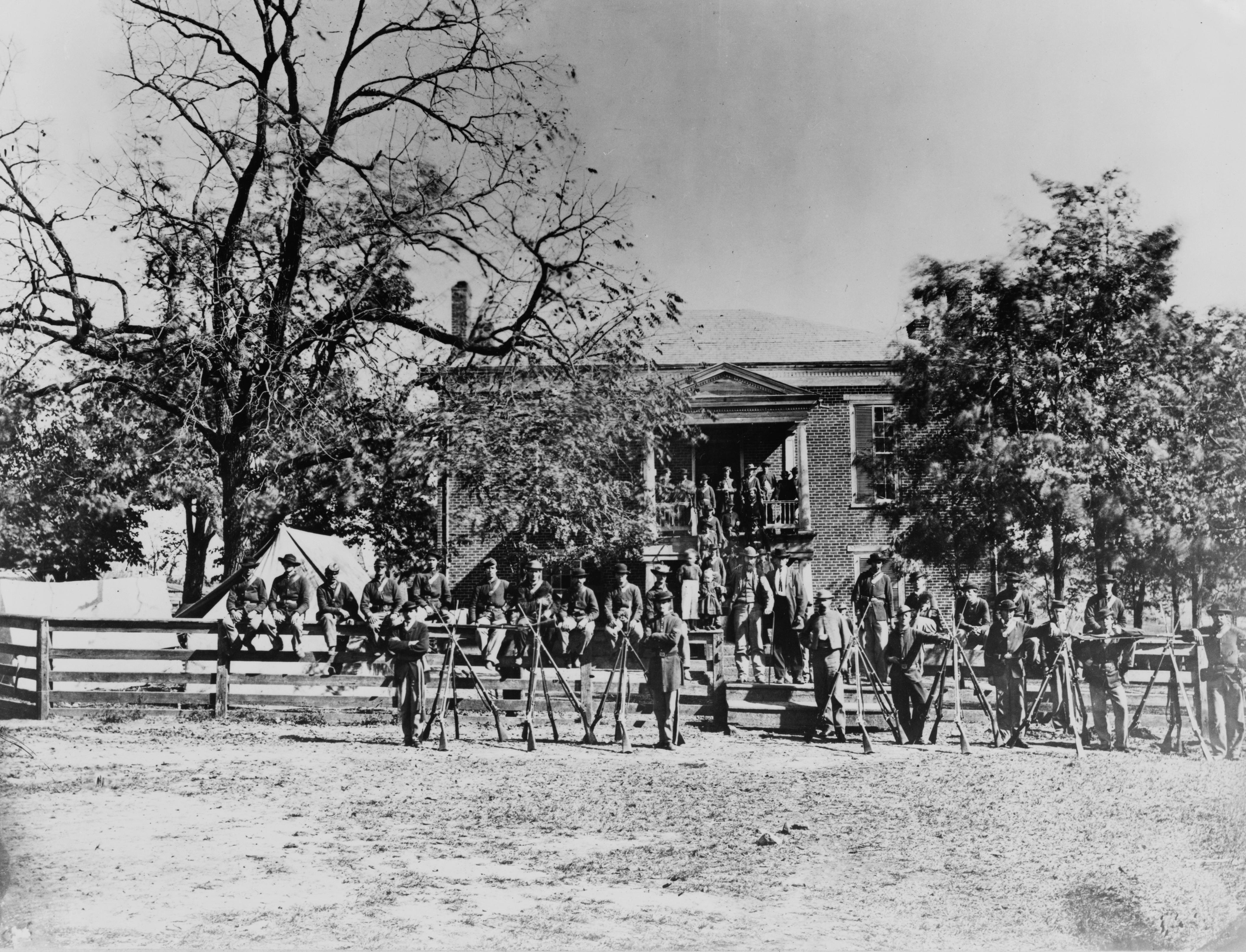 Photograph of the exterior, main facade, of Appomattox Court House, Appomattox, Virginia with Union soldiers posing in front of the building.